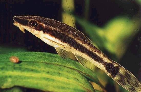 Otocinclus affinis